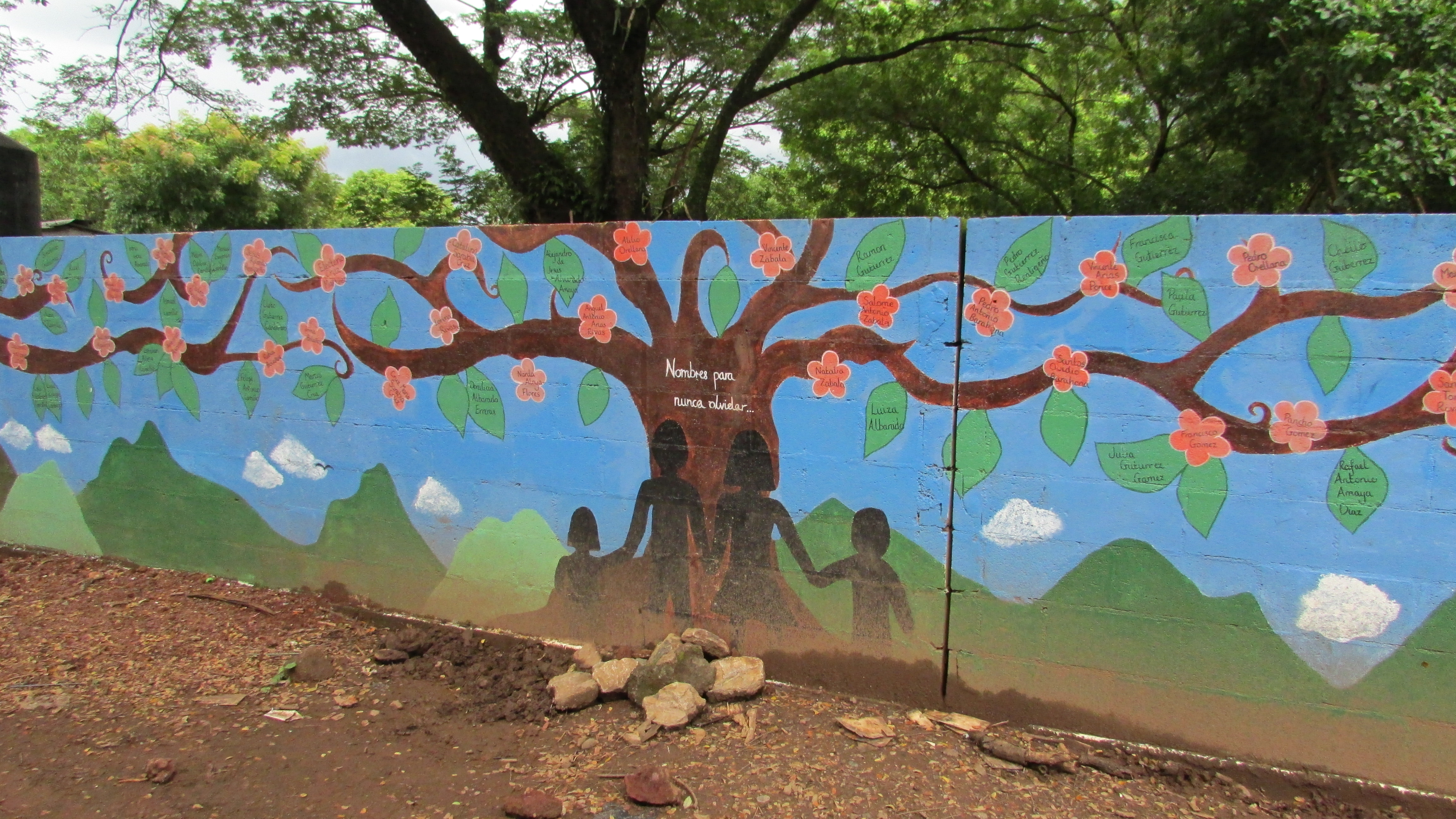 A tribute to the lost community members of the civil war - part of the stunning ecotourism route in Nuevo Gualcho, El Salvador